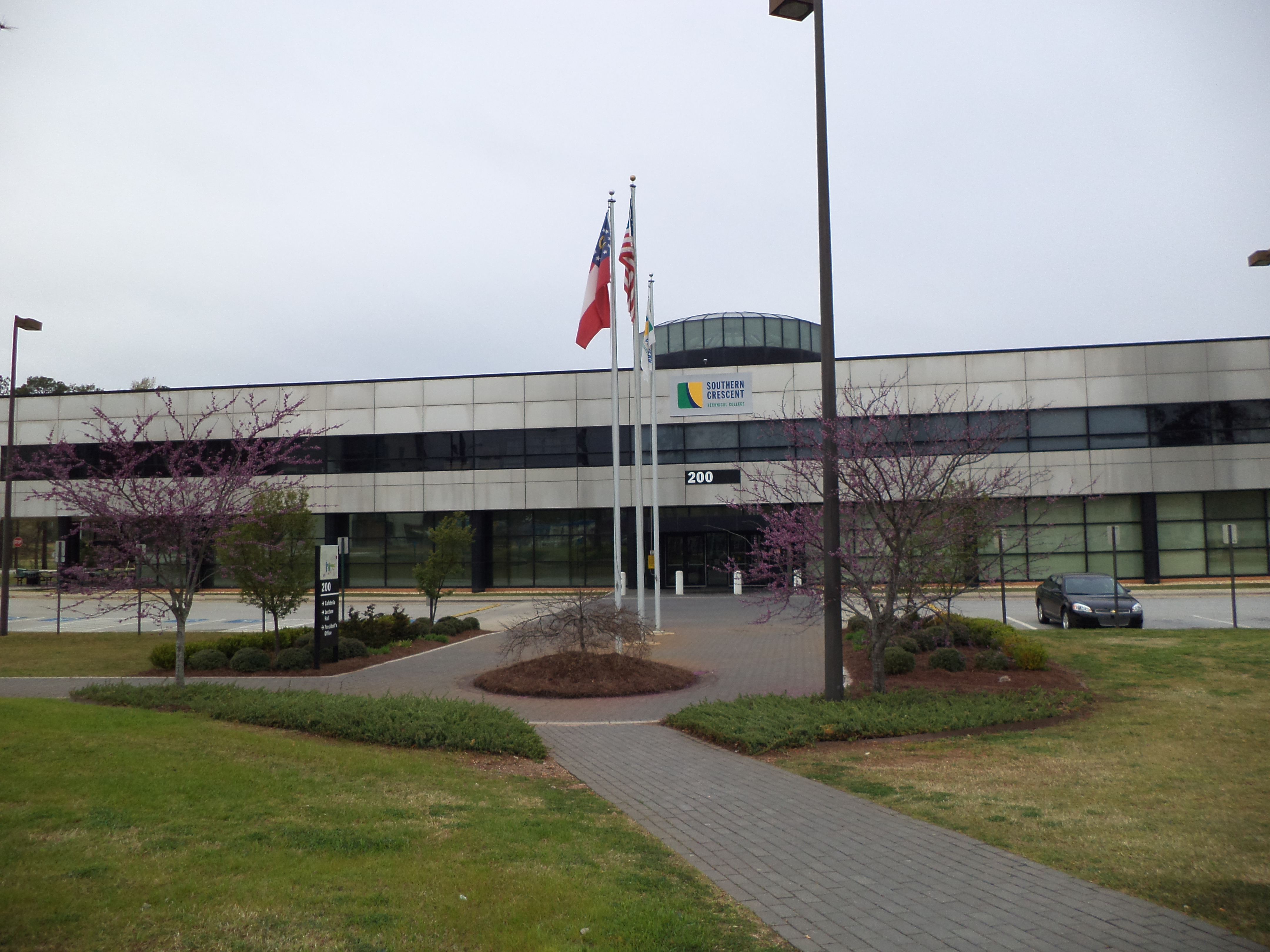 Southern Crescent Technical College 200 Building closeup, Griffin, Spalding County, Georgia